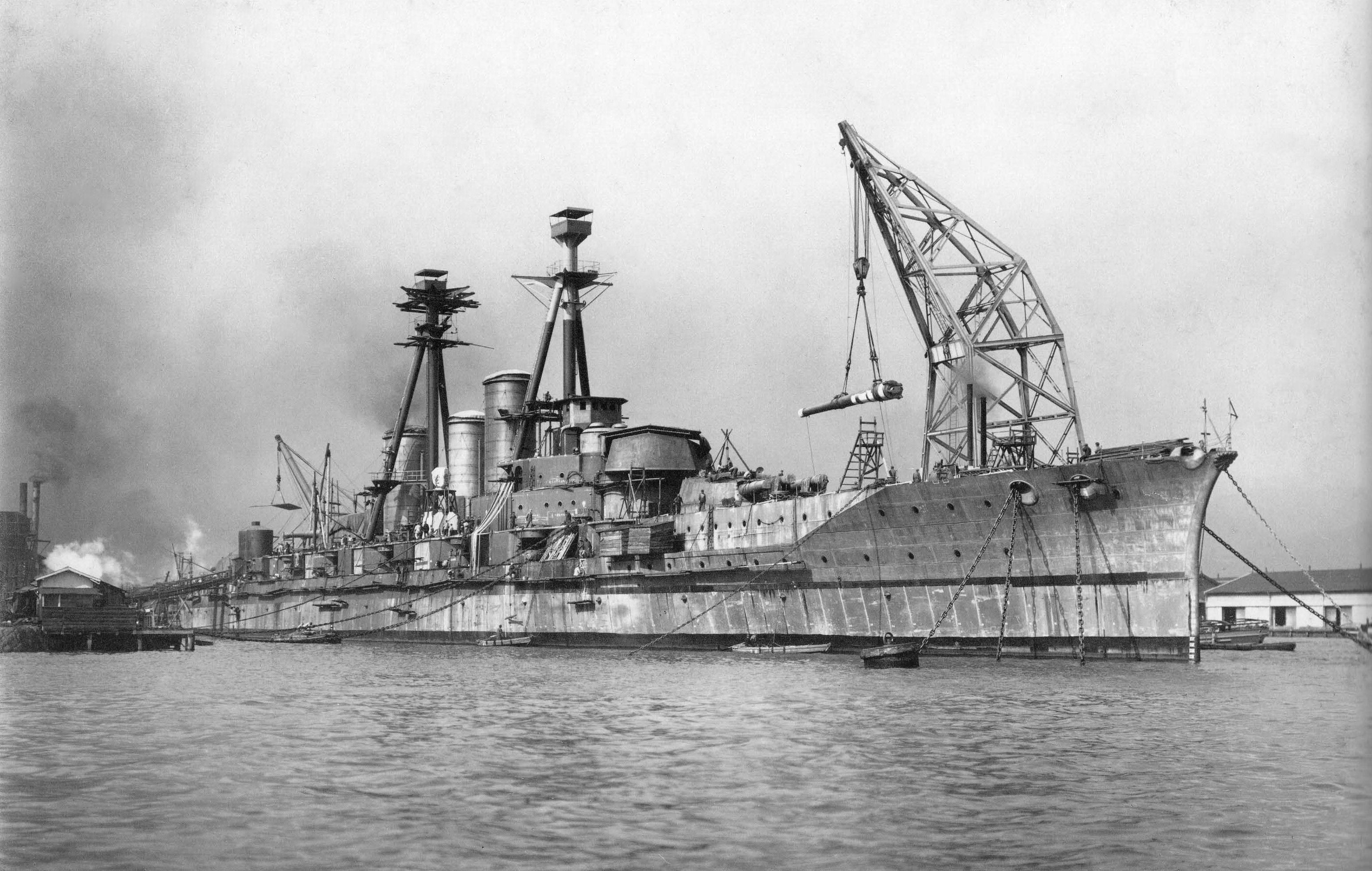 Imperial Japanese Navy battlecruiser Haruna is fitted-out by the Kawasaki company at Kobe, Japan.